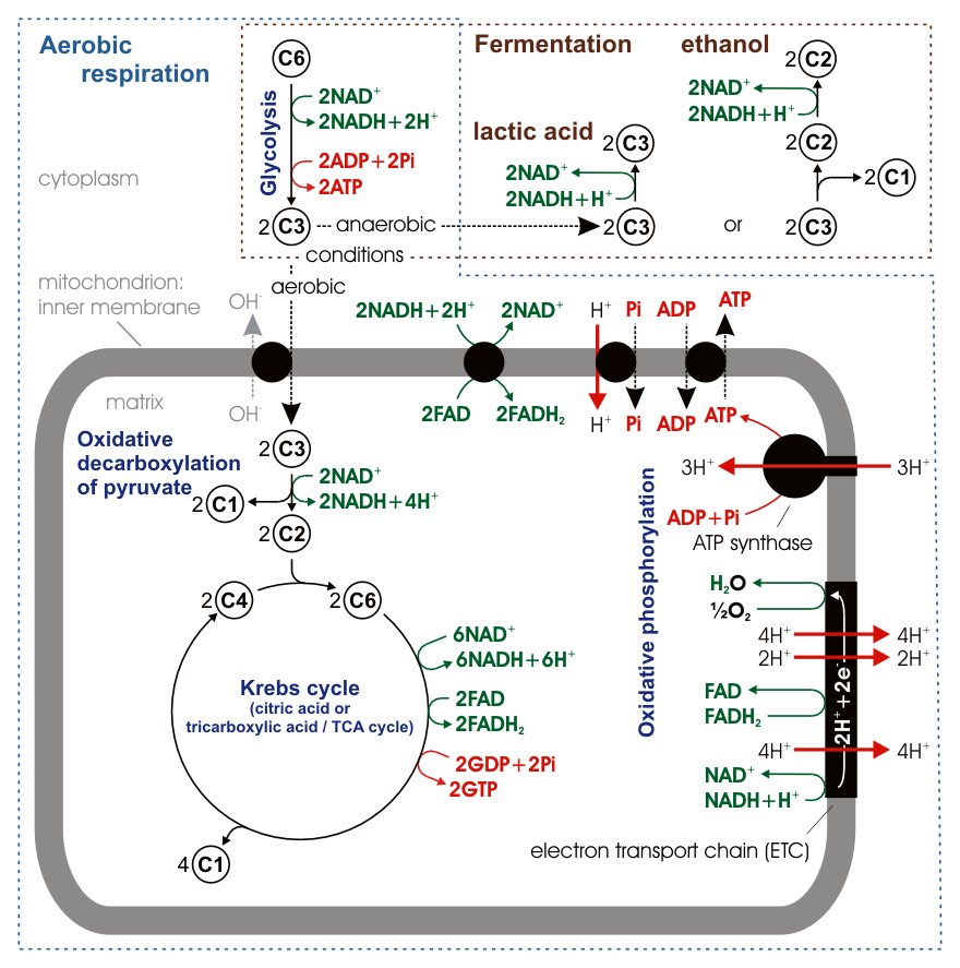 Comparison of aerobic respiration and most known fermentation types in eukaryotic cells.